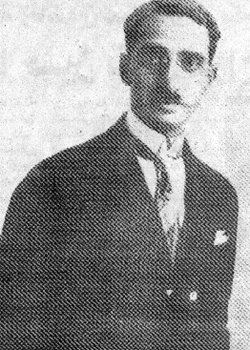 Iraqi former Prime-Minister Abdel-Muhsin Al-Sa'dun